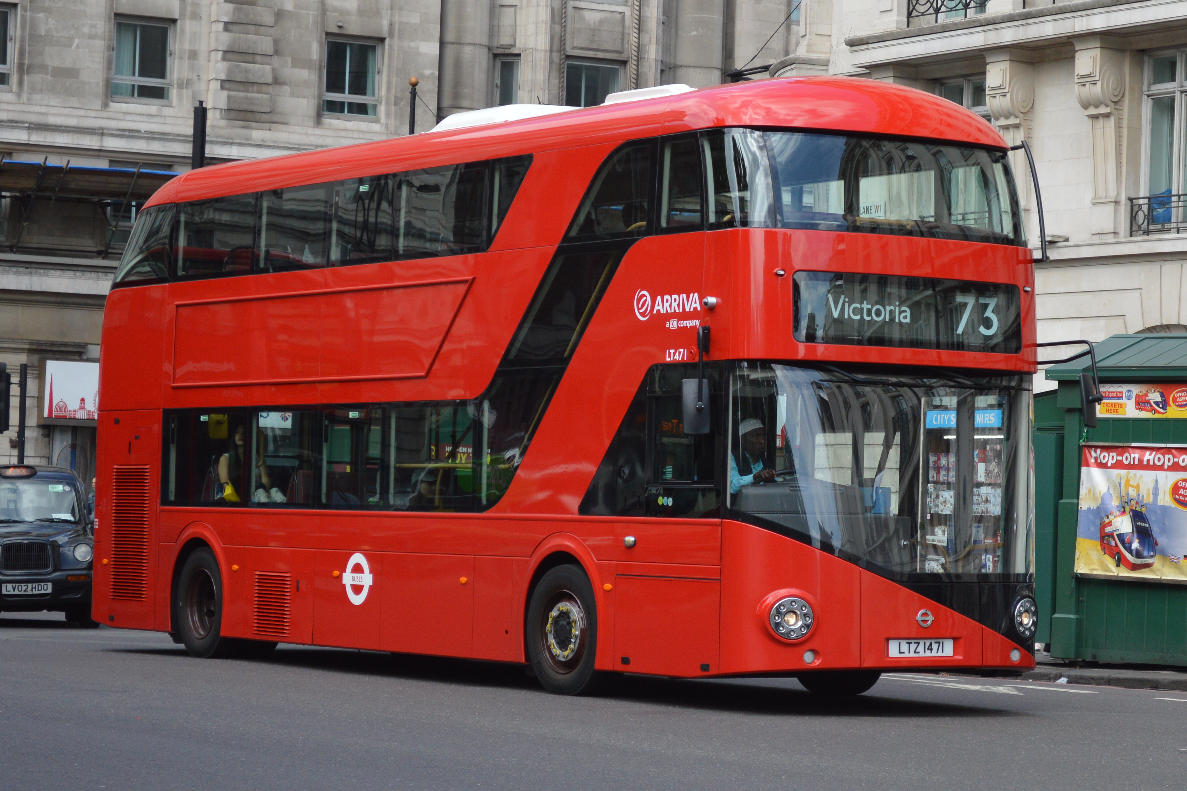 LT 471 (LTZ 1471) Arriva London New Routemaster is seen on London route 73 to Victoria. This is seen on Thursday 25 June 2015.